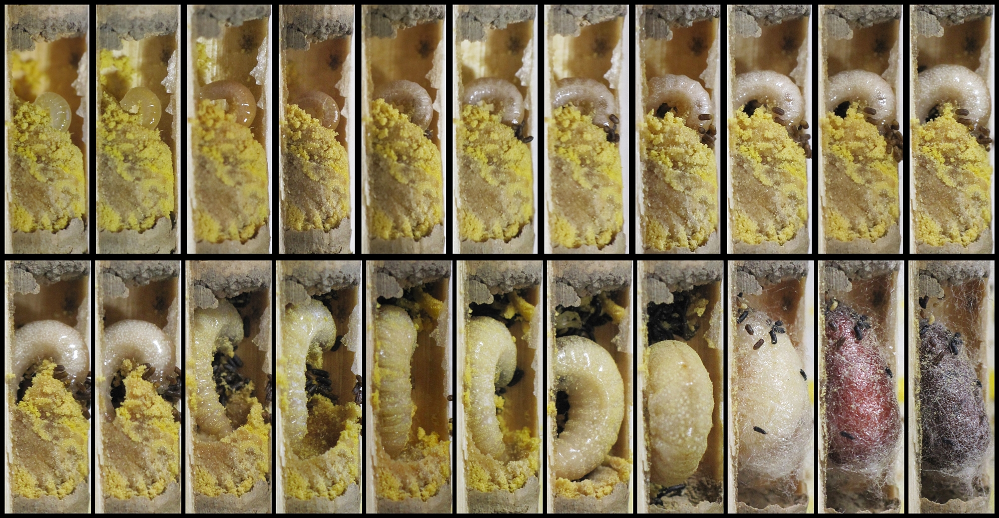 Red Mason-bee worksheet cycle